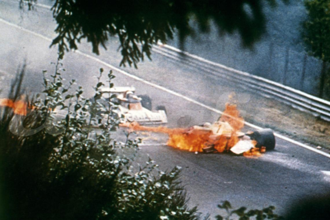 Niki Lauda car crash in Nurburbring